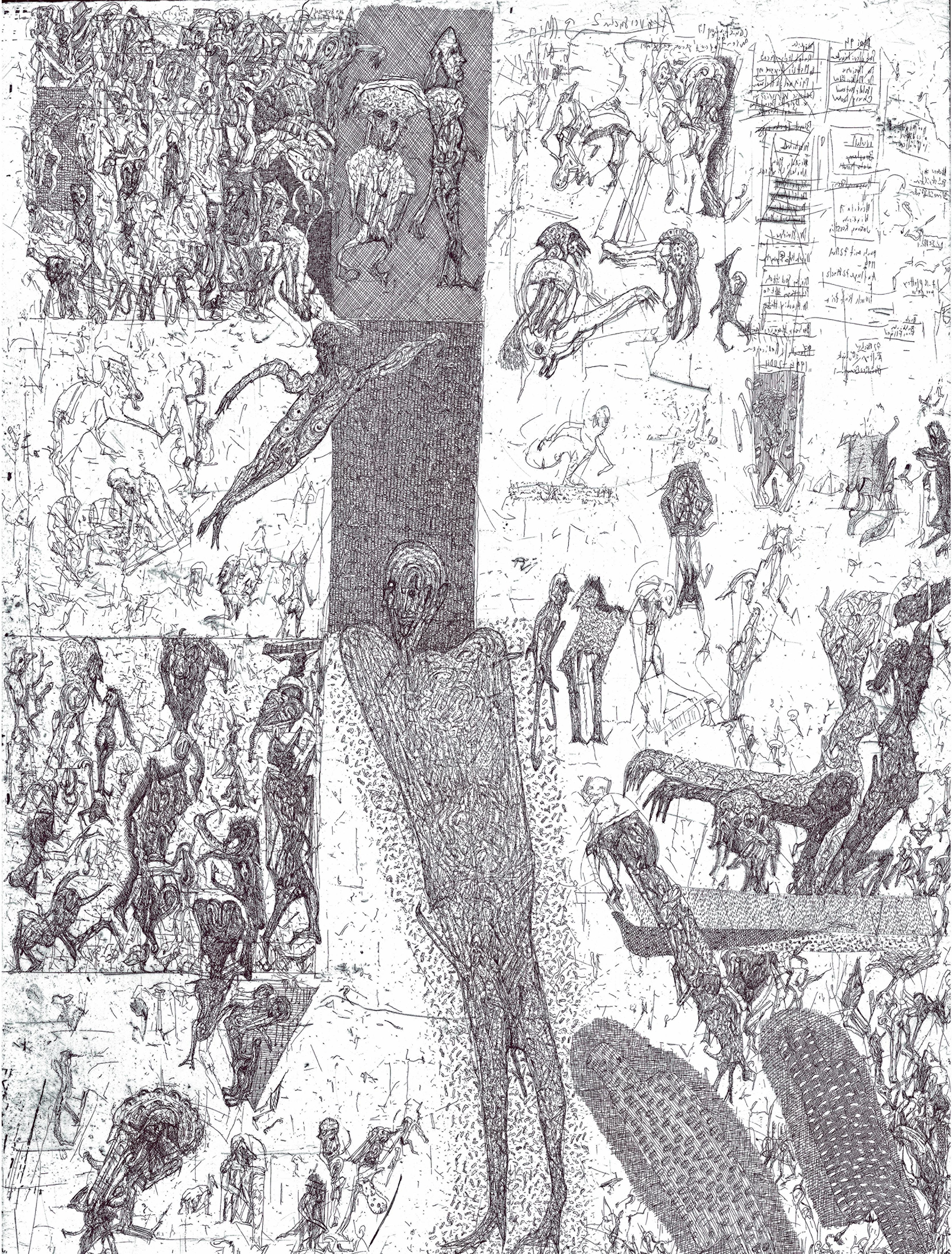 Felix Waske: Etching No. 3 from the book "75 Radierungen 1994-2003"